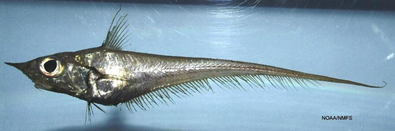 Blackfin grenadier ( Caelorinchus caribbaeus ). Gulf of Mexico.